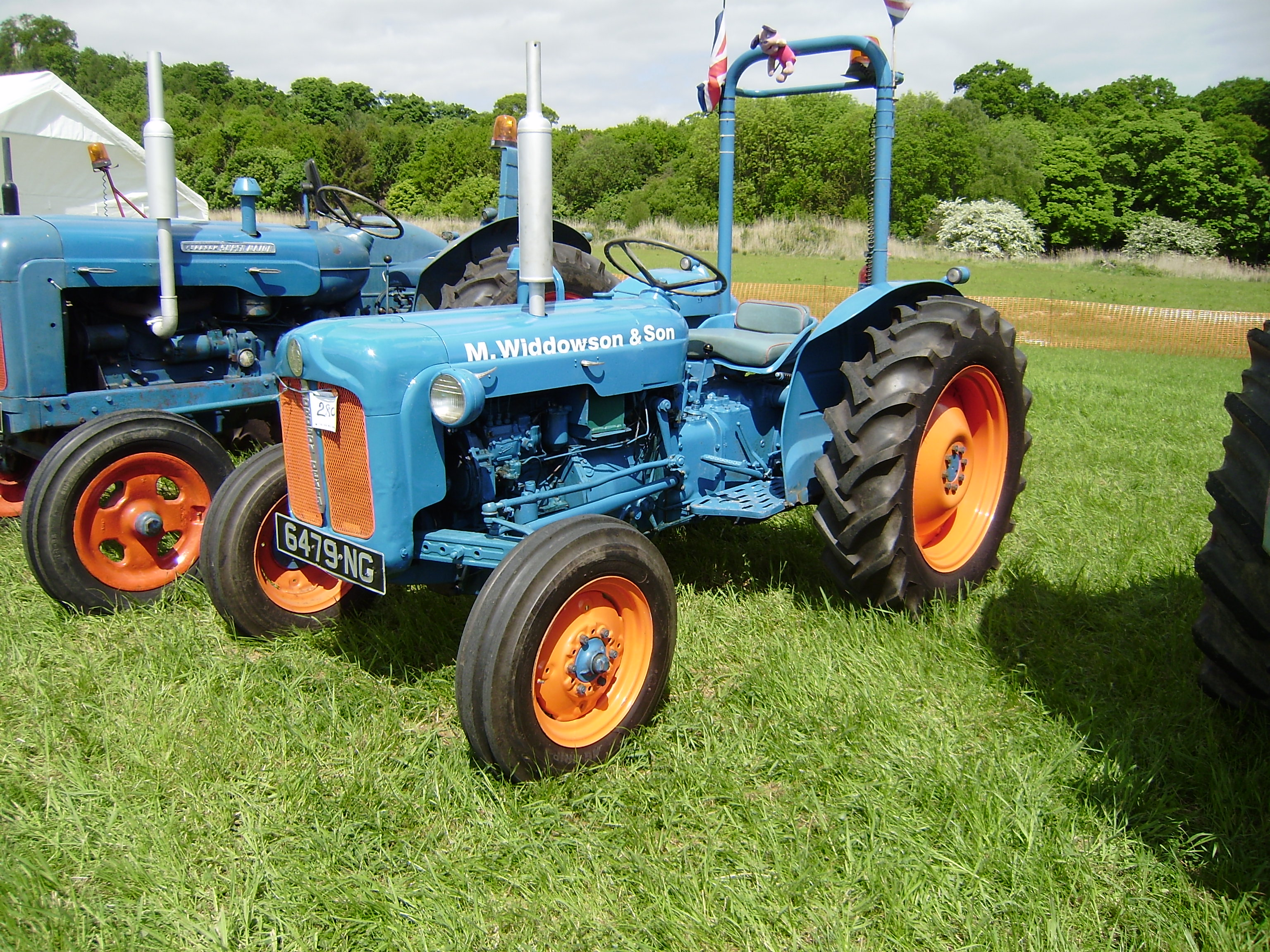 Fordson Dexta tractor with ROPS bar retro-fitted, seen at Belvoir Castle Show 2008; Fordson Super Major on the left